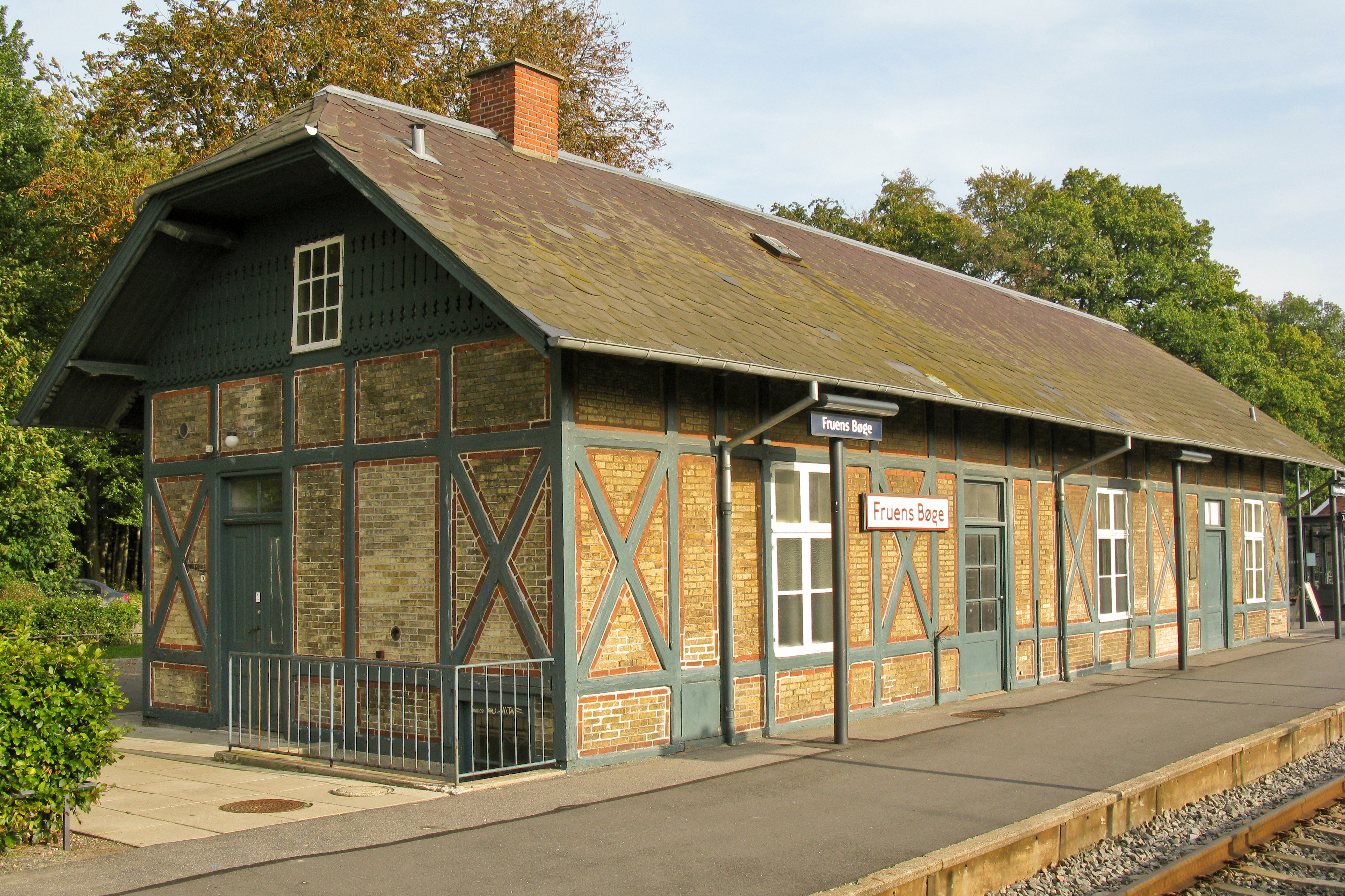 The main building of Fruens Bøge Station from 1876. It is a train station on Svendborgbanen located in Fruens Bøge in Odense, Denmark.